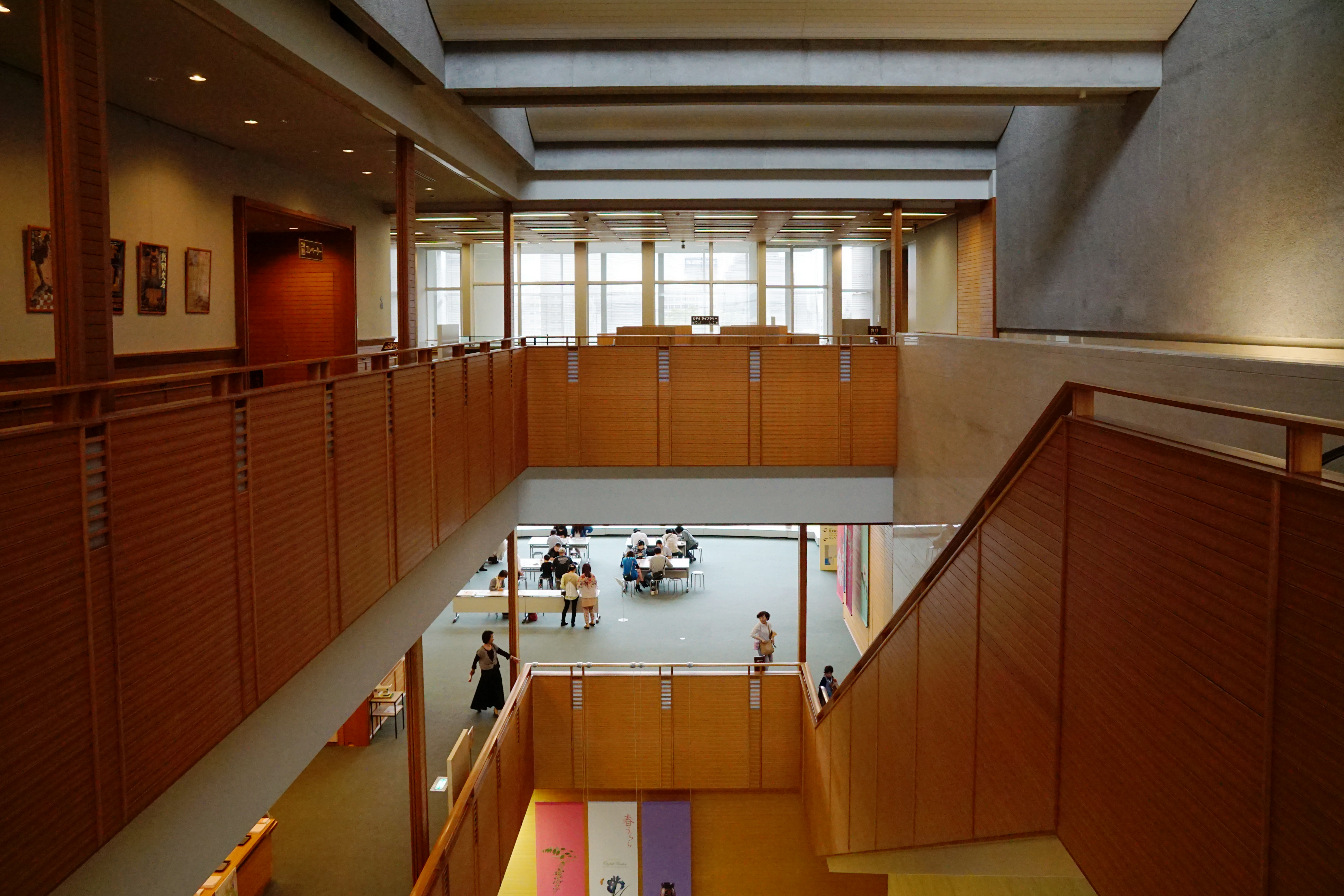 The Kagawa Museum, Takamatsu, Kagawa prefecture, Japan